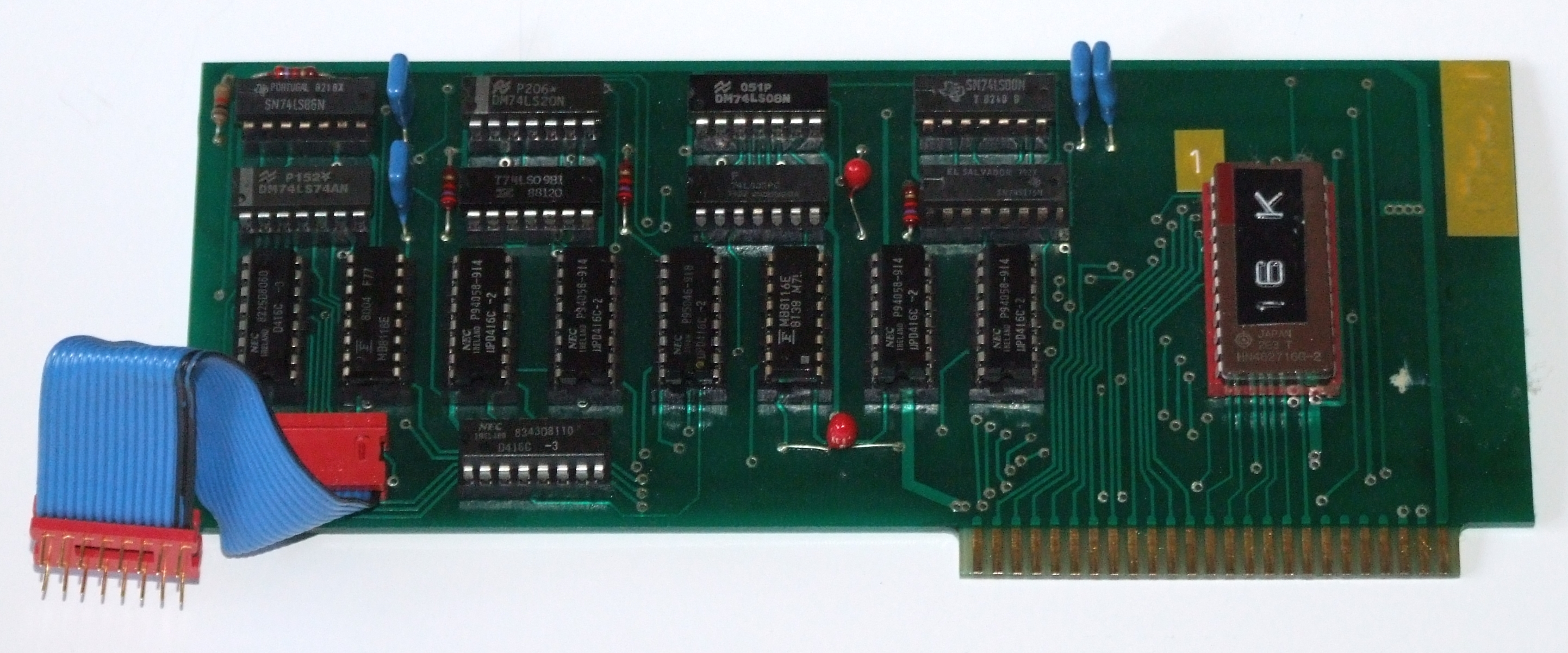 Interface Card - 16 K Memory Apple II